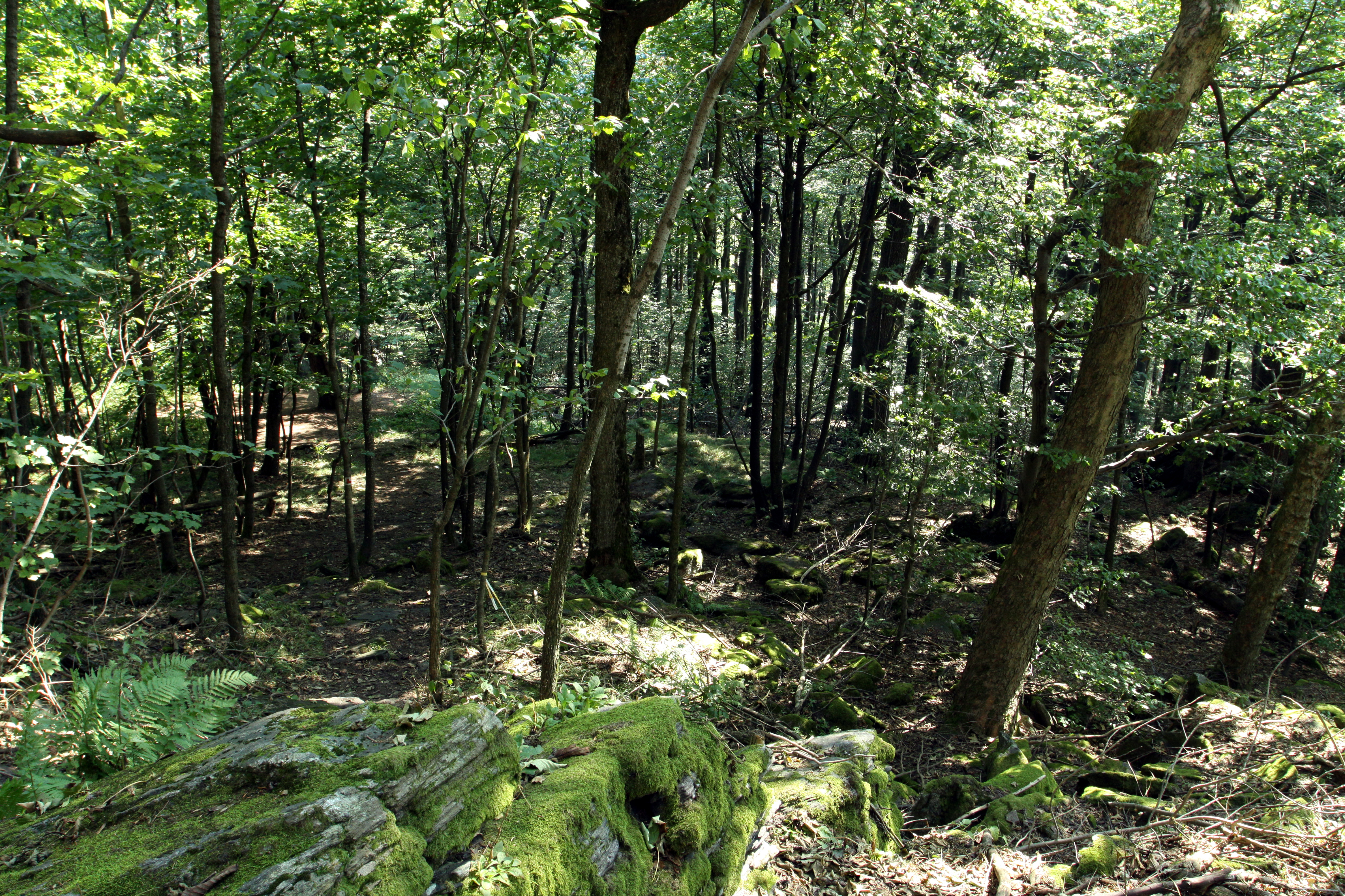 Nature reserve Starý Hirštejn near Mnichov in Domažlice District, Czech Republic